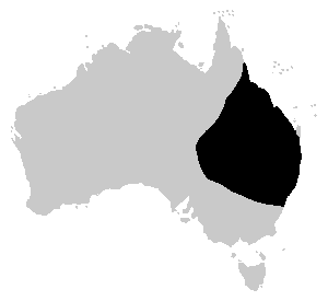 Distribution of the Broad Palmed Frog, Litoria latopalmata.